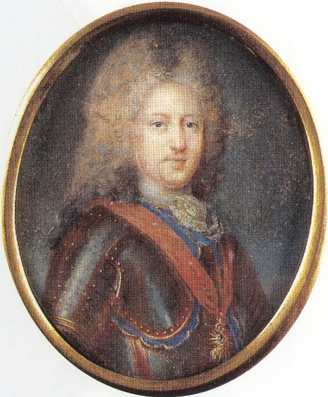 Portrait of Léopold Joseph, Duke of Lorraine by an unknown artist